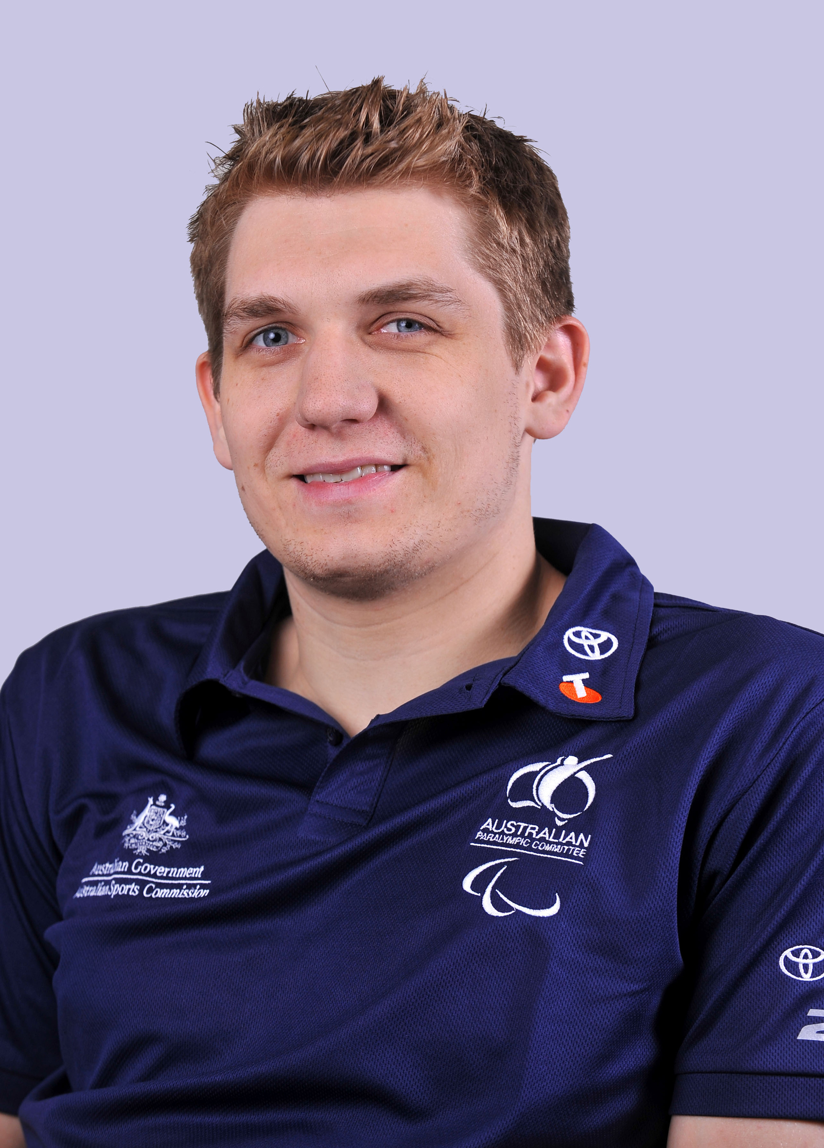 Portrait of Australian wheelchair rugby player Ben Newton, 2012 Australian Paralympic (shadow) Team athlete